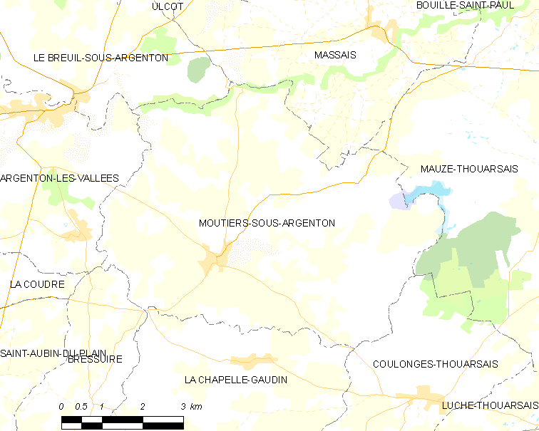 Map of French municipality Moutiers-sous-Argenton